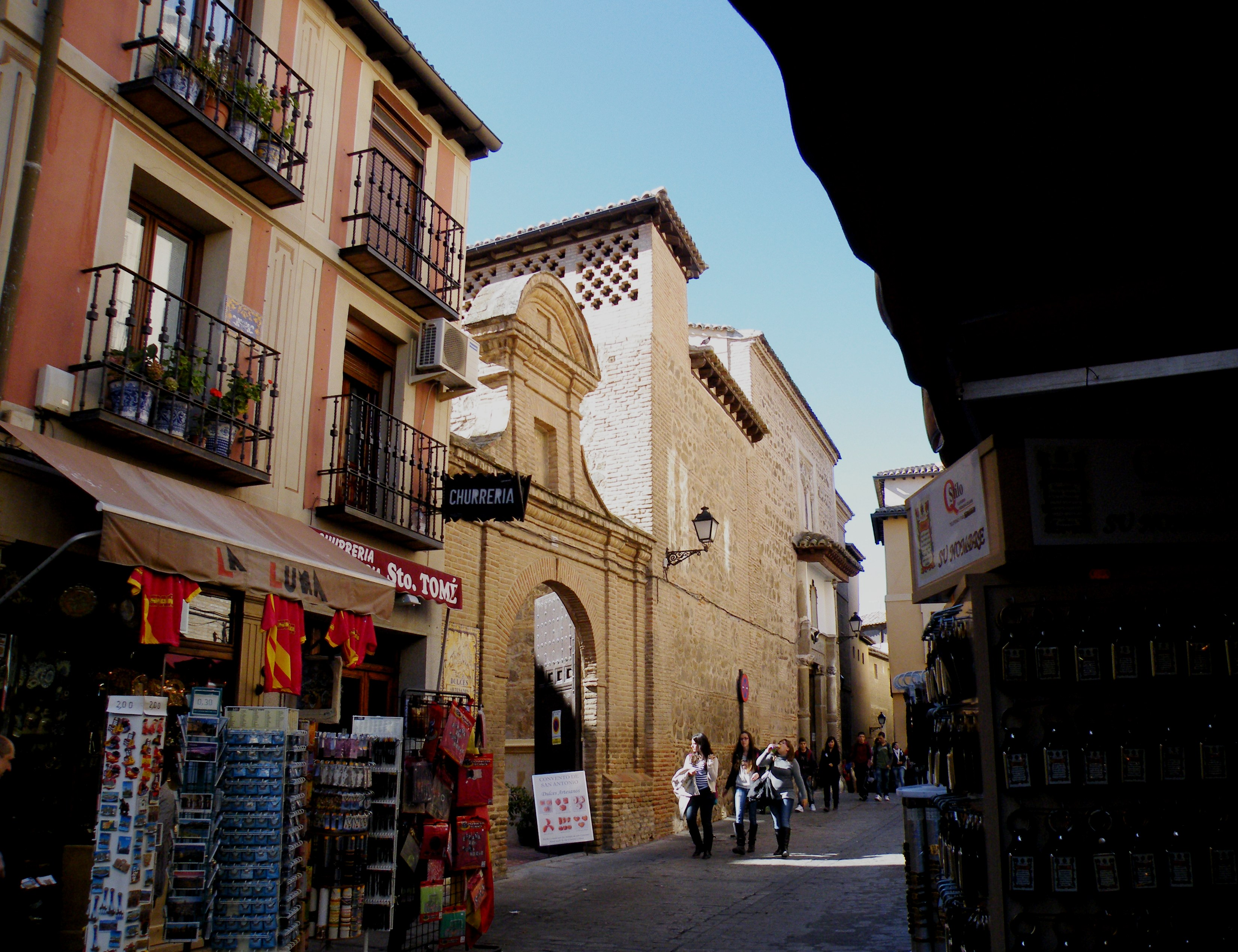 Shopping street in Toledo, Spain.